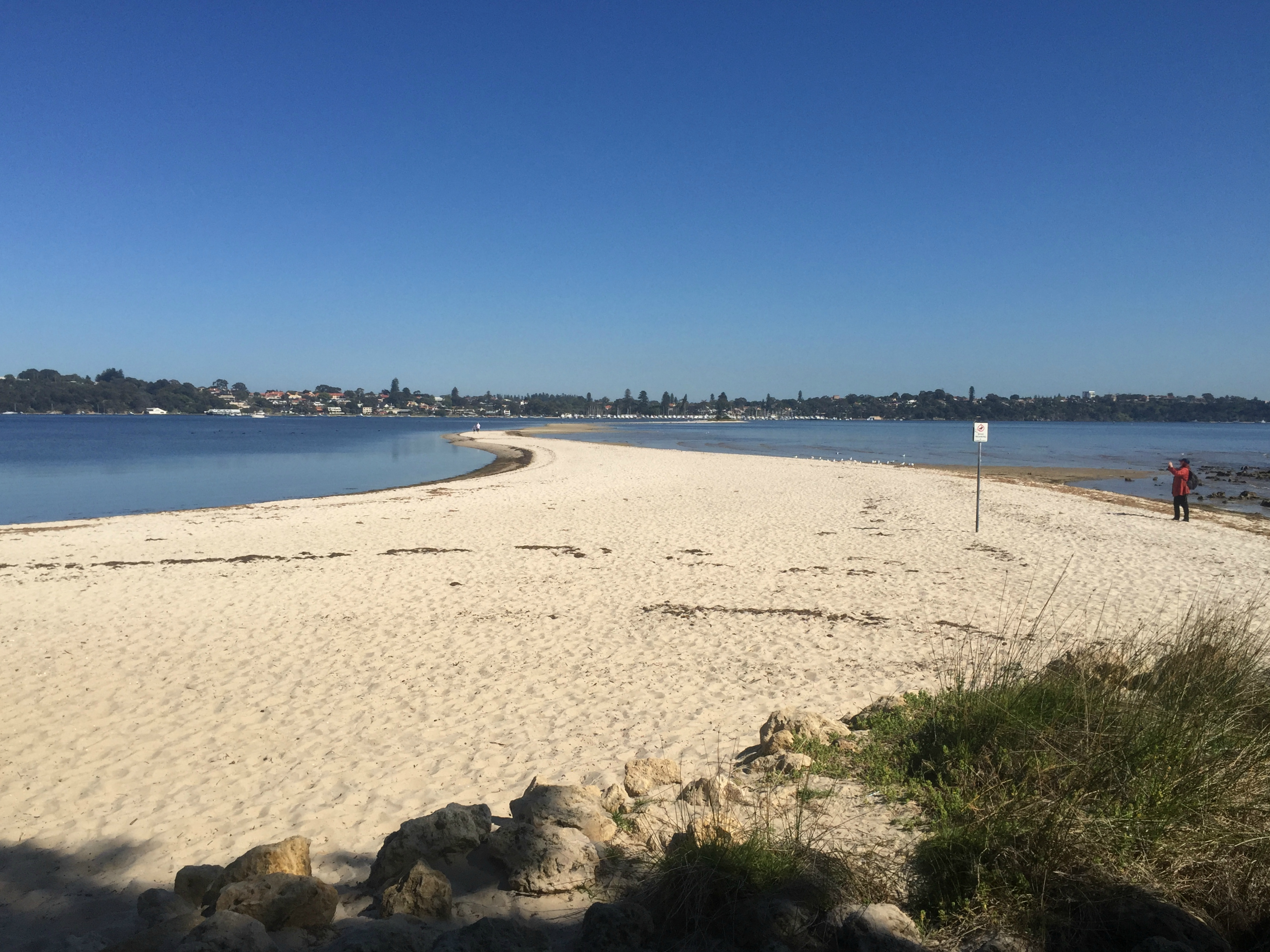 Looking out at sandbar from Point Walter, Australia